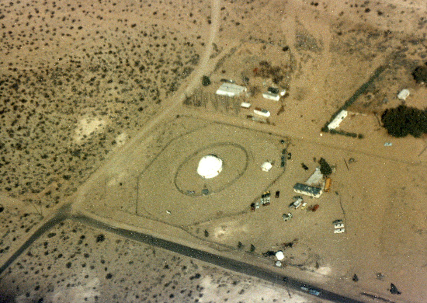 Overflight of The Integration enroute to Giant Rock airport (now closed.)